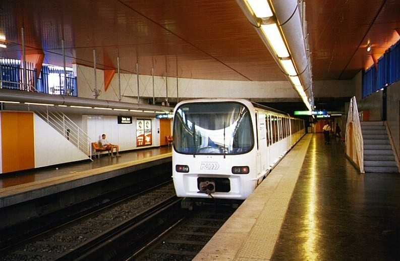 Metrostation "Saint Just - Hôtel du département" of the first line Marseille's subway.